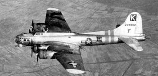 B-17 447th Bombardment Group 42-97392